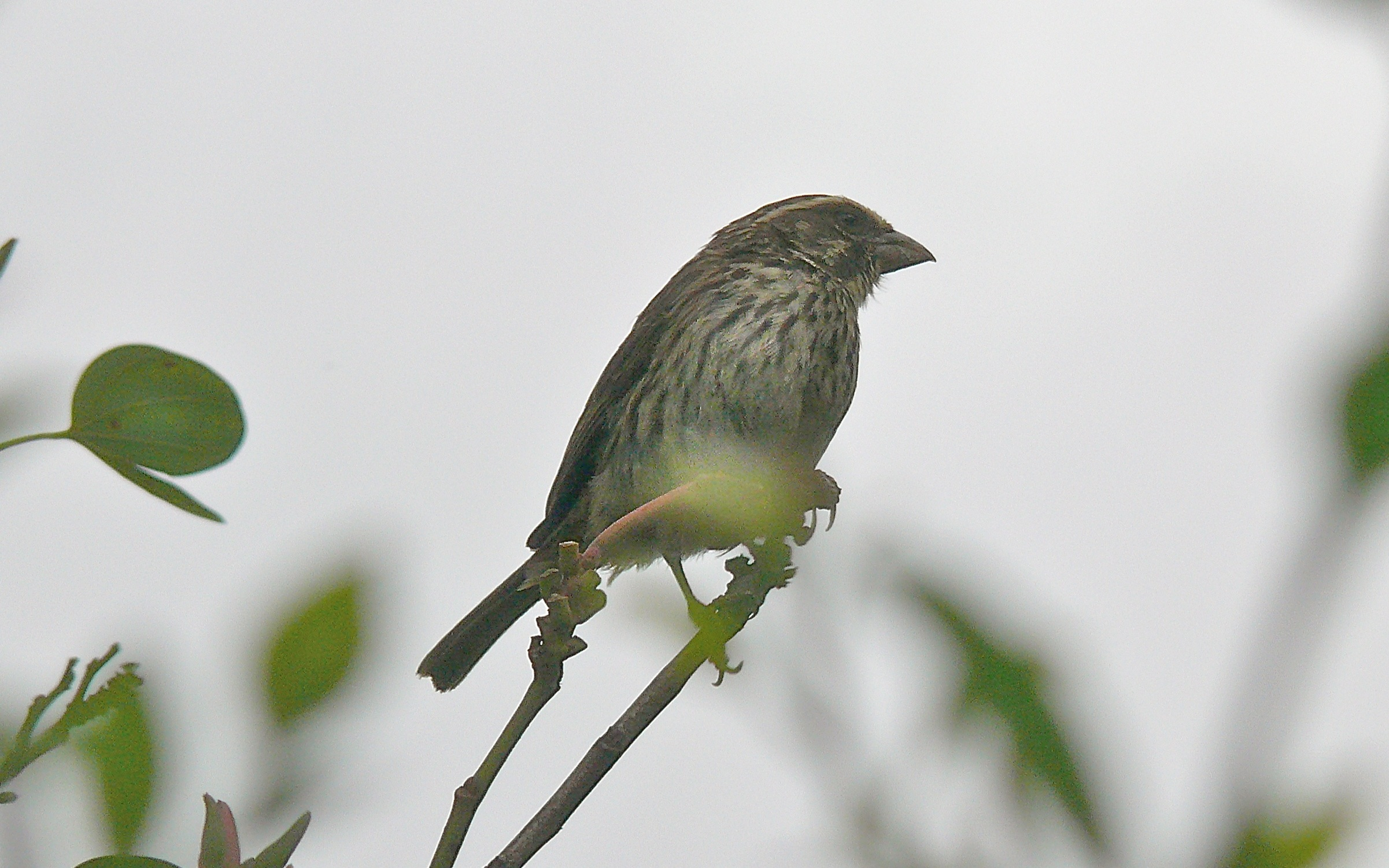 Streaky seedeater (Crithagra striolata) photographed in Nanyuki, Kenya